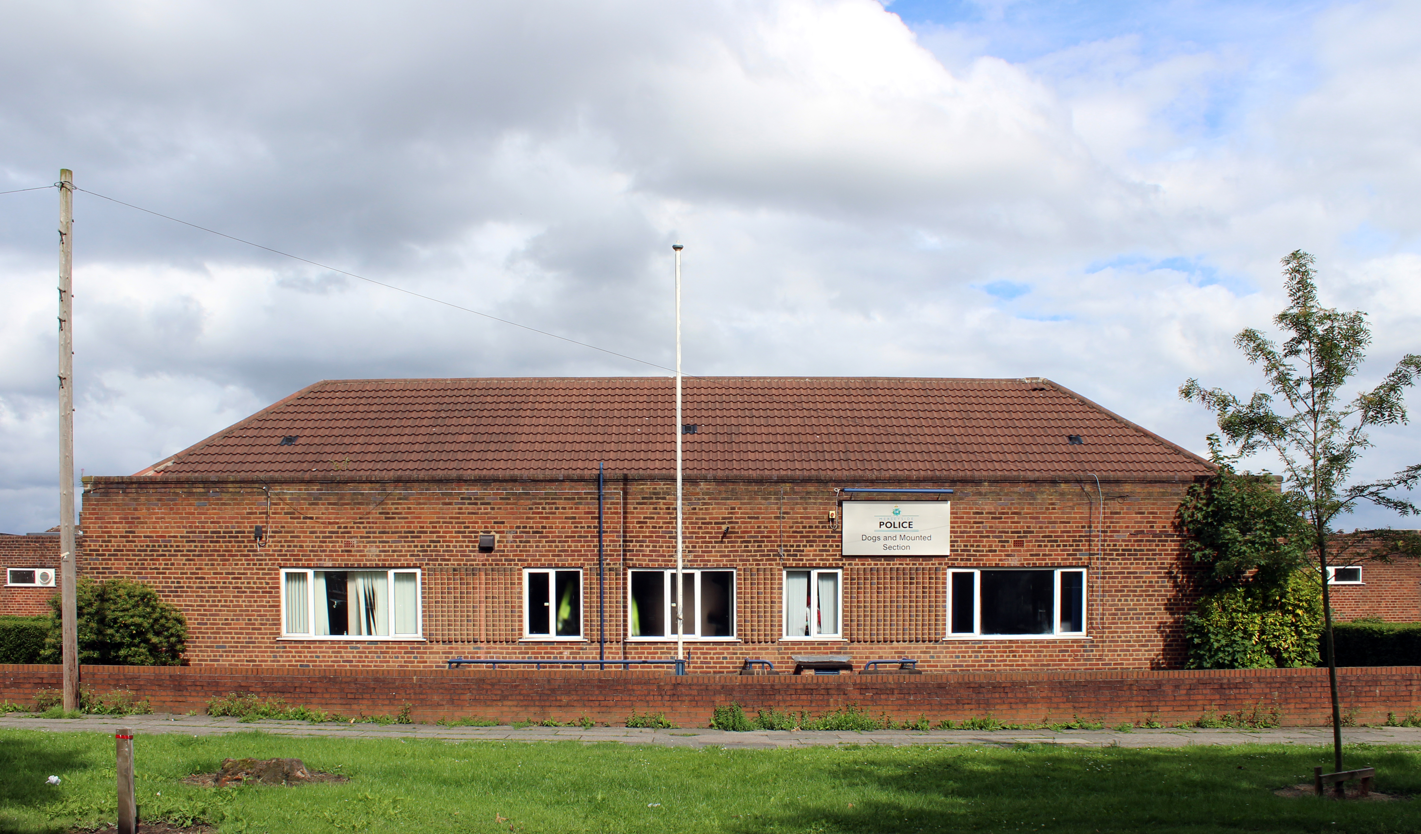 Frontage on Greenhill Road, Allerton